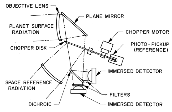 Schematic of the Mariner 2 infrared radiometer